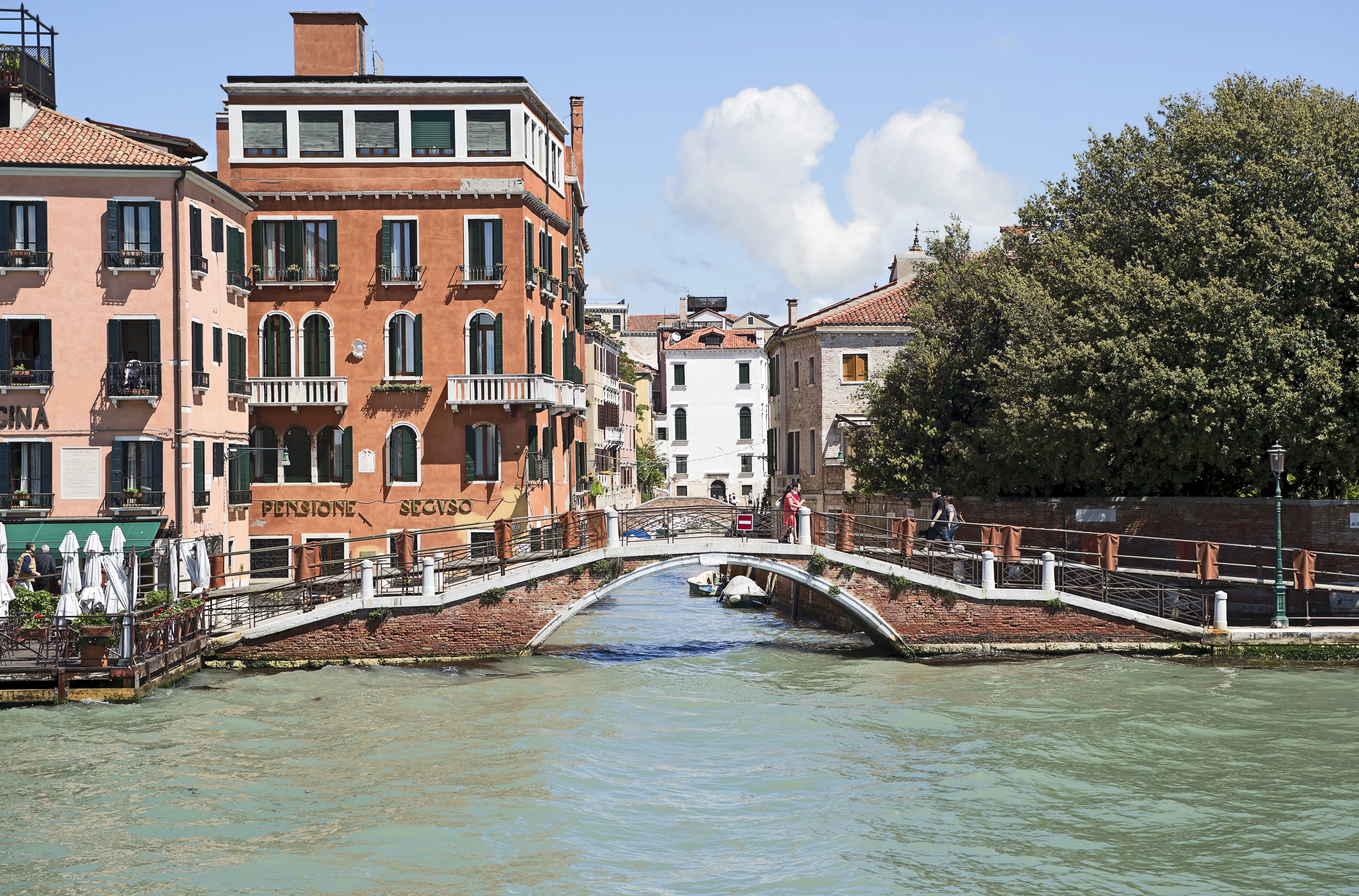 Ponte de la Calcina in Venice.